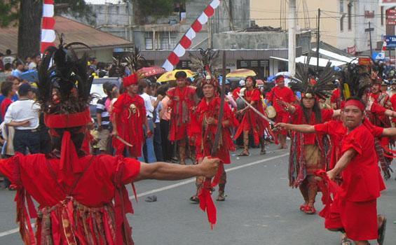 Kabasaran war dance in Tomohon city, North Sulawesi province, Indonesia.